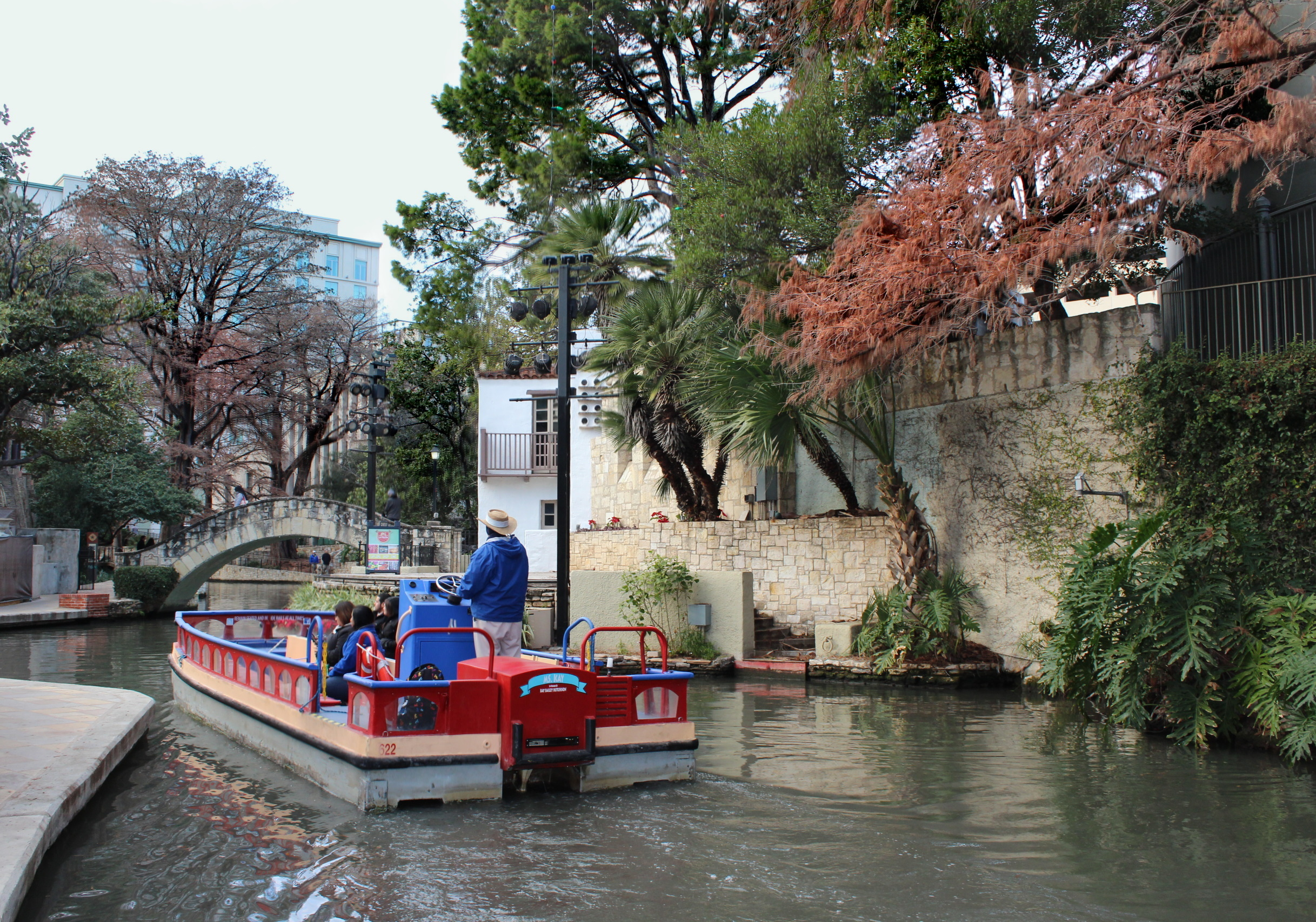 San Antonio River Walk, Texas, USA